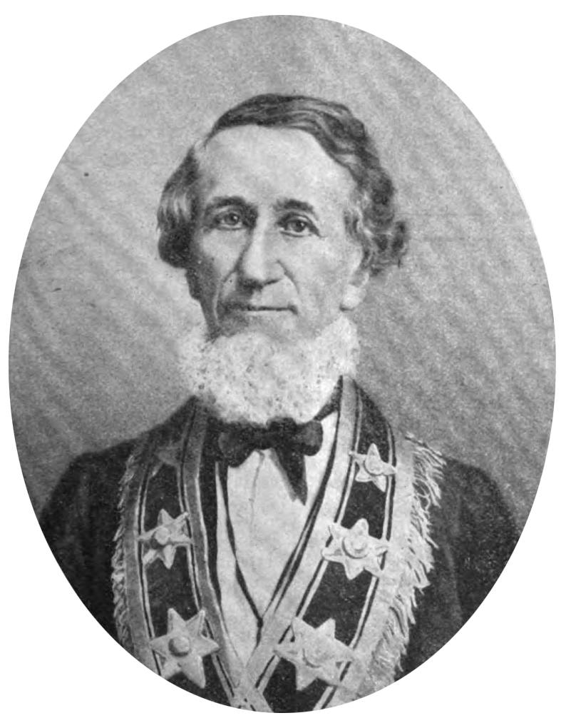 Abraham Jonas, Grand Master, Kentucky, 1833, Grand Master, Illinois, 1840, from The Masonic Voice-Review (Chicago), Vol. 5, March 1903, p. 151.